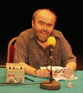 The cult BBC Radio 4 comedy show I'm Sorry I Haven't a Clue being recorded at the New Wimbledon Theatre, London. In the break, comedian, actor and writer Andy Hamilton and producer Jon Naismith make an appeal on behalf of the Wimbledon Book Festival and, in particular, Sandi Toksvig's Writing Challenge (more details at the Wimbledon Bookfest website)